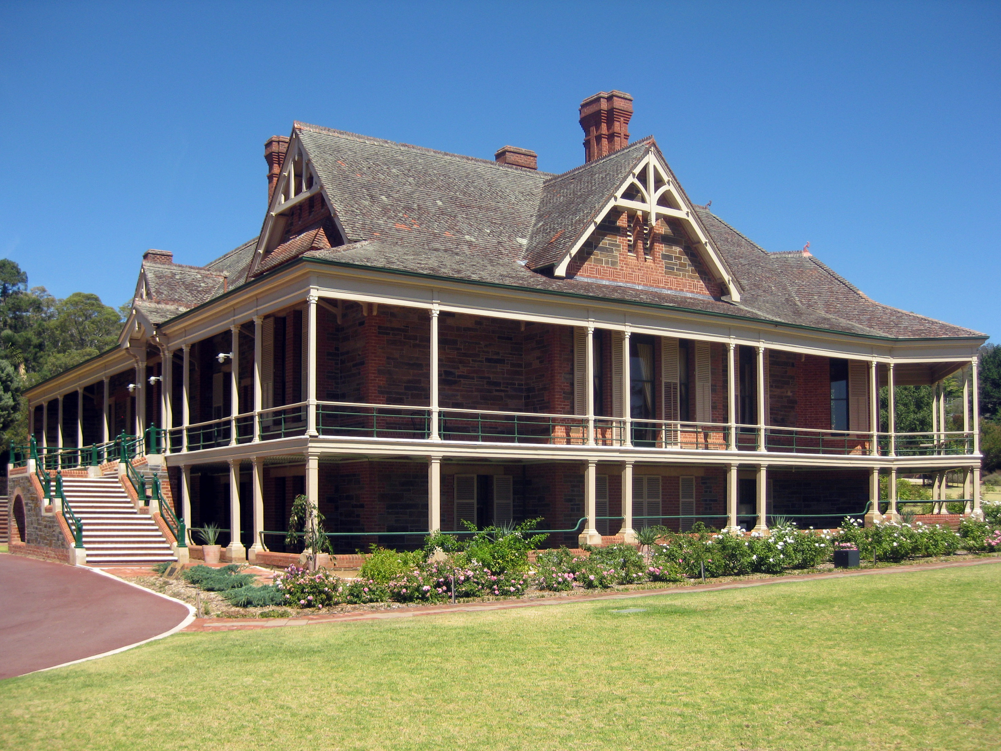 Urrbrae House at Urrbrae, South Australia. Built for Peter Waite